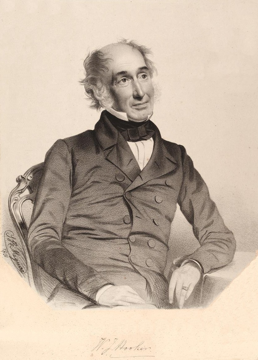 Portrait of William Jackson Hooker (1785-1865) - charcoal pencil drawing